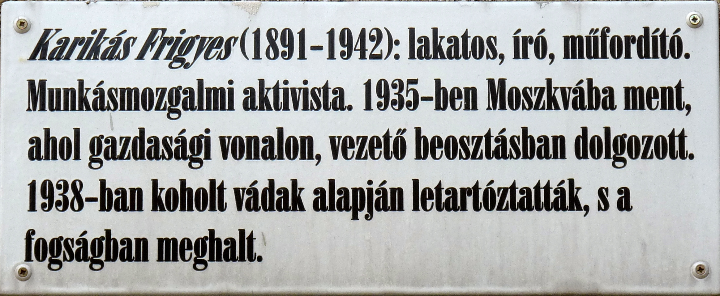 Frigyes Karikás commemorative plaque in Budapest District XIII, Karikás Frigyes Street No 1.